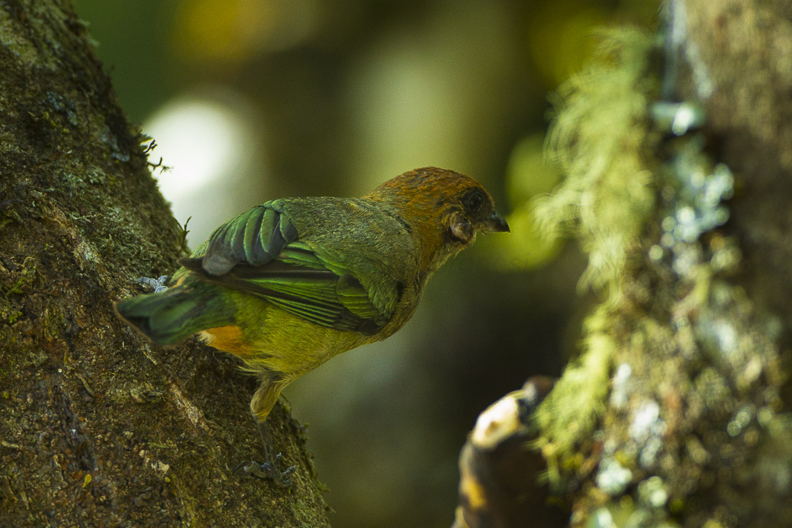 Chestnut-backed Tanager - Intervales - Brazil_S4E9443